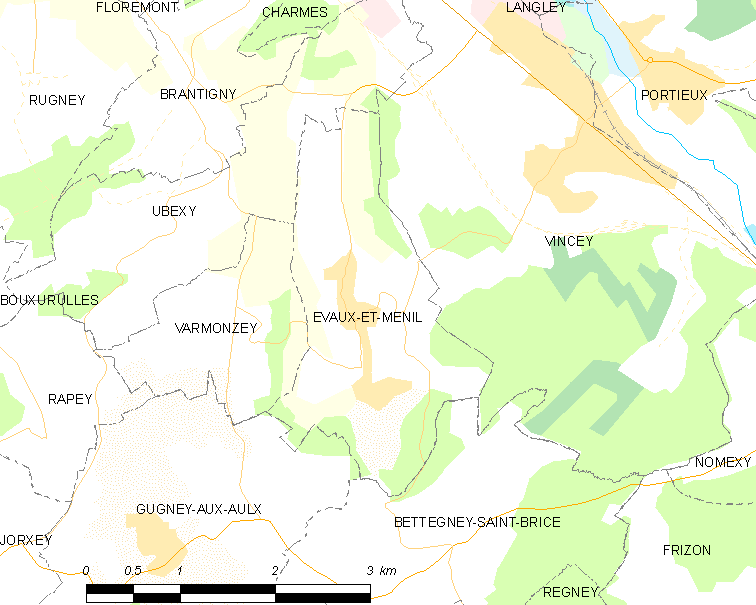 Map of French municipality Évaux-et-Ménil